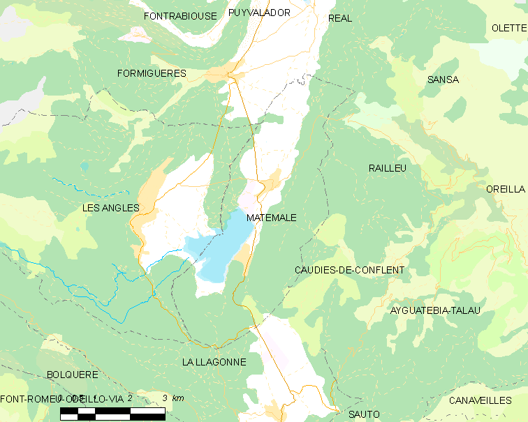 Map of French municipality